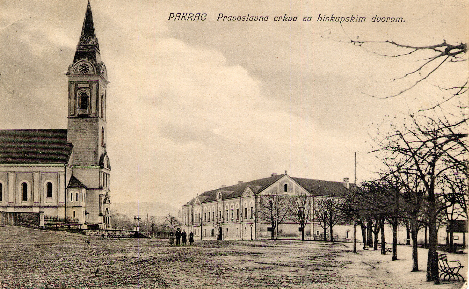 Serbian Orthodox church of Holy Trinity and Bishop palace, Pakrac, Austro-Hungarian Empire, 1908